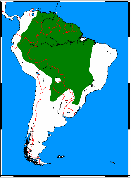 Range map for Giant Armadillo (Priodontes maximus), made by me with help of Map depending on the range map at IUCN red list.